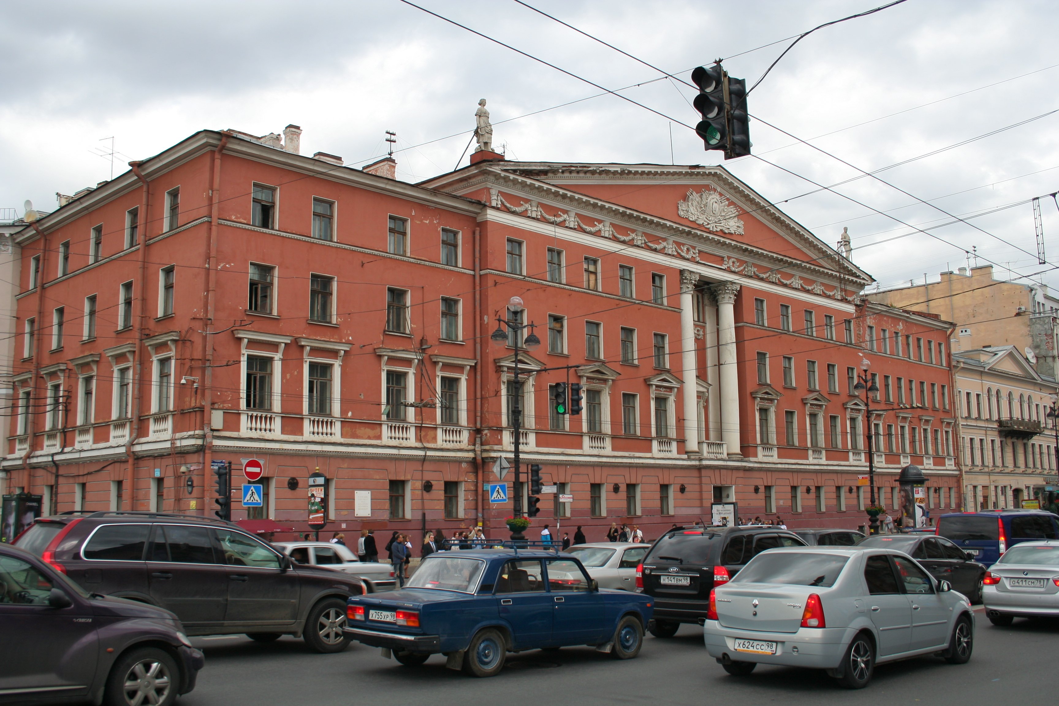 The Nevsky Prospekt in Saint Petersburg. House number 68.